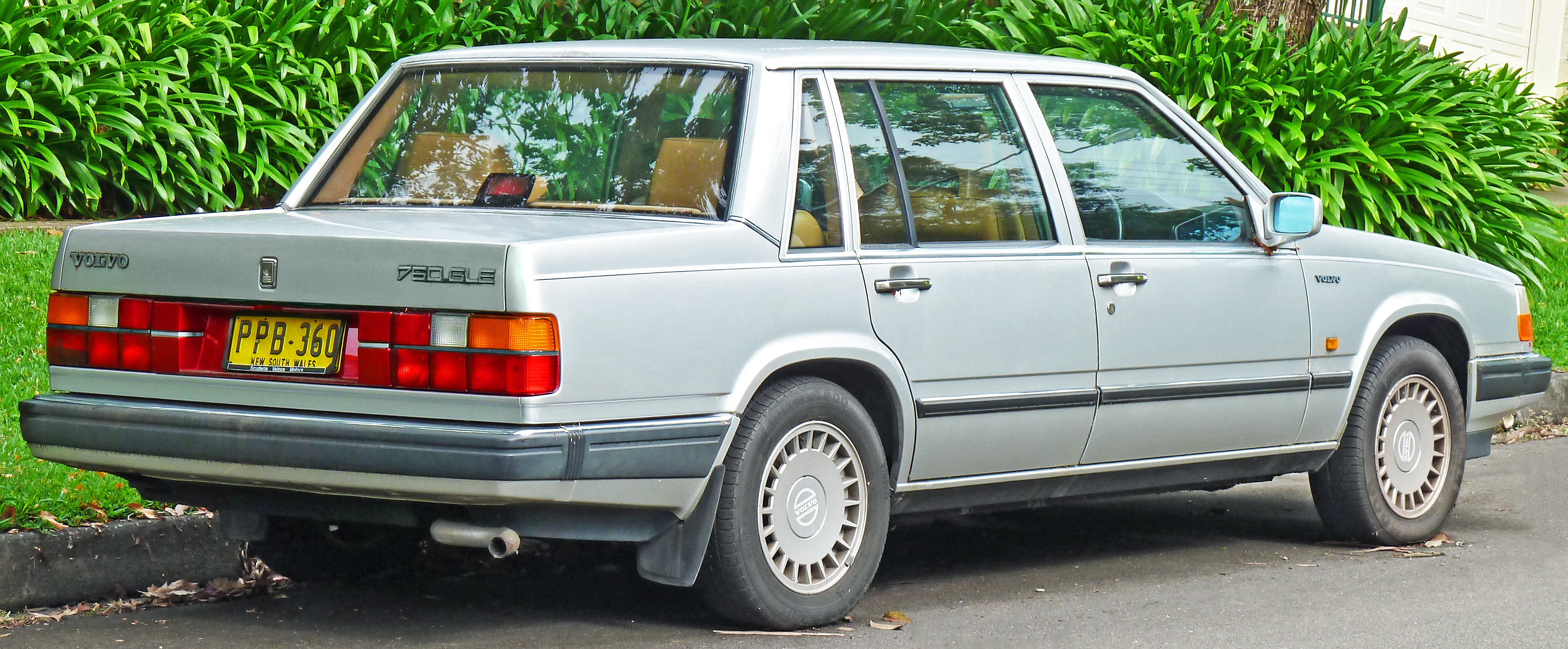 1989 Volvo 760 GLE sedan. Photographed in Gordon, New South Wales, Australia.